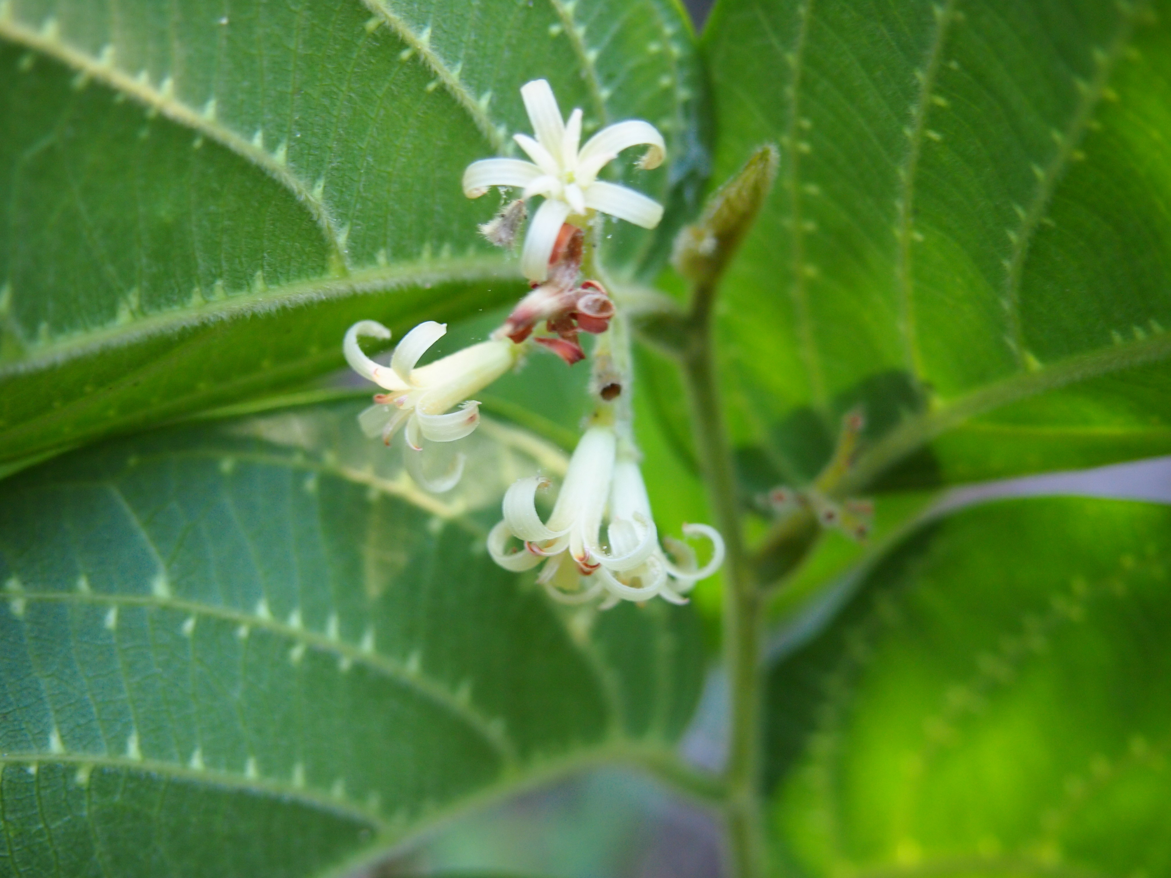 Alangium villosum flowers